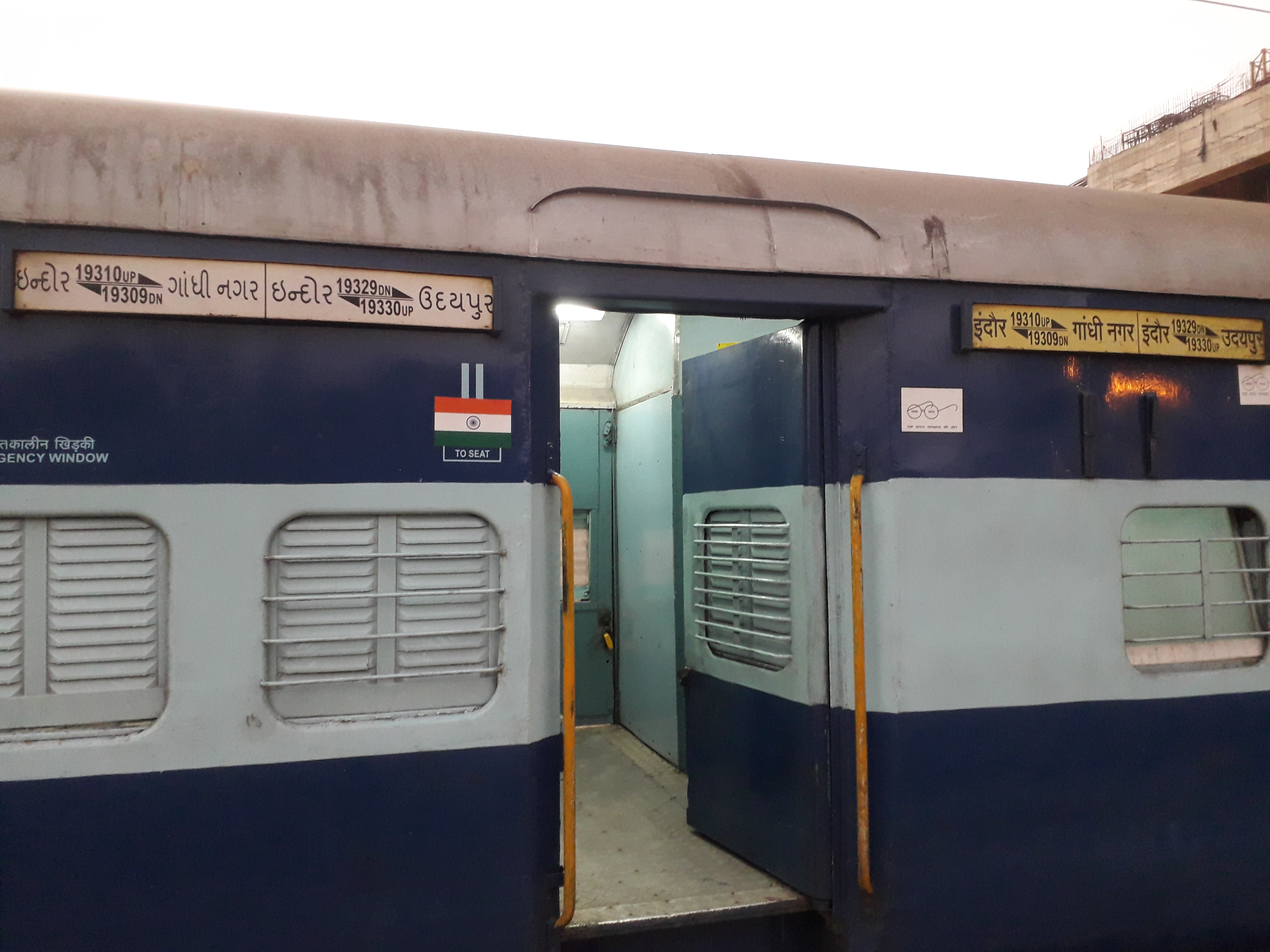 Shanti Express - 2nd Class seating coach